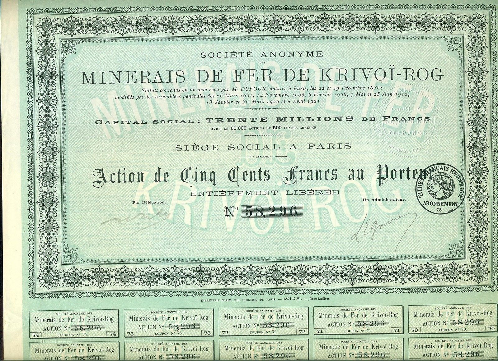 Krivoi Rog French Iron Mining Company Stocks